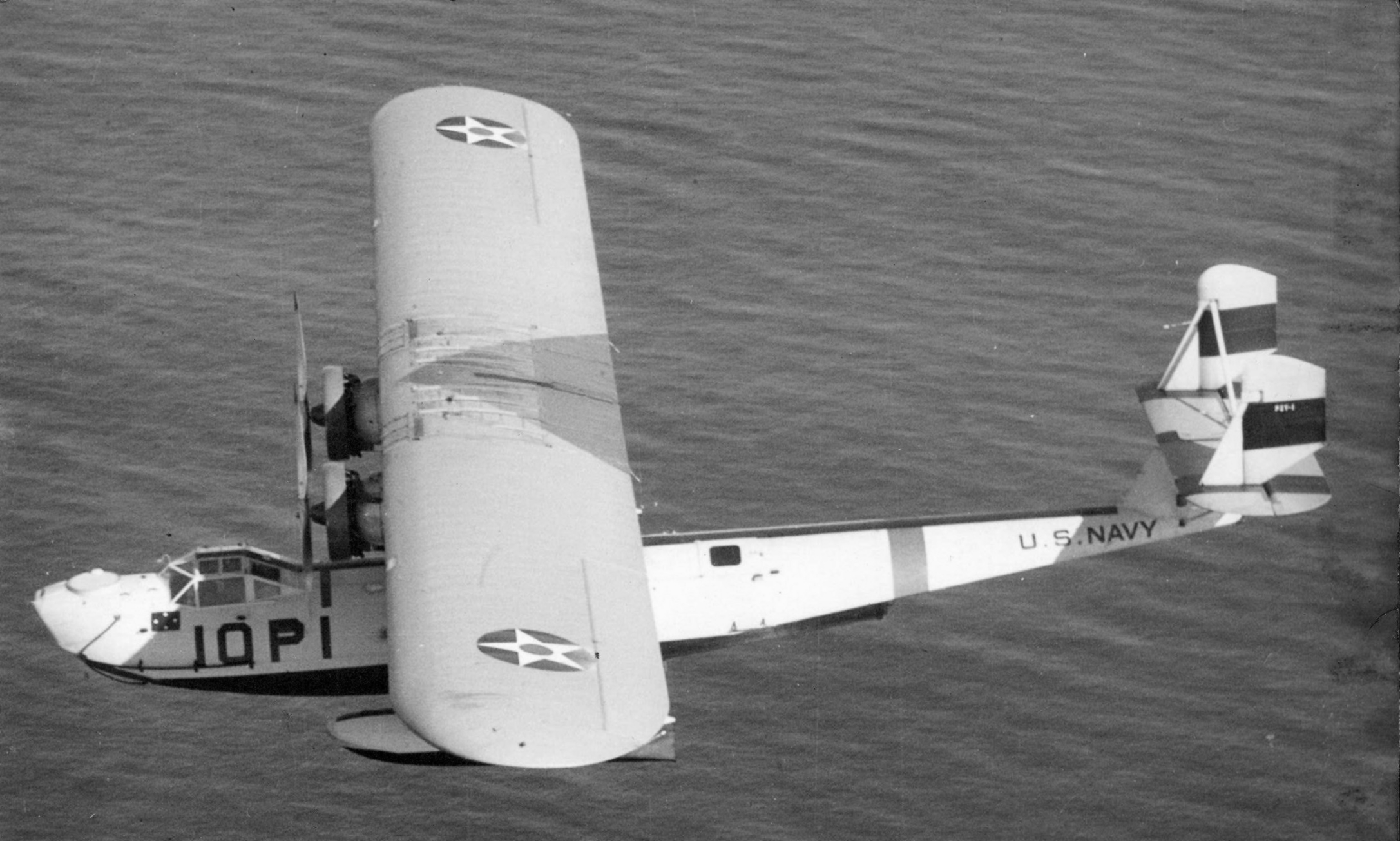 A U.S. Navy Consolidated P2Y-1 flying boat of Patrol Squadron VP-10F in flight. The four-star flag indicates that an admiral is on board.